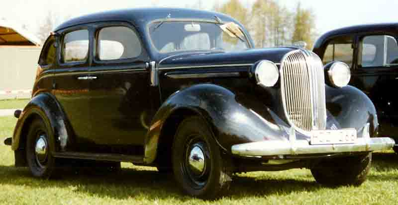 Plymouth 4-Door Model P5 Touring Sedan 1938